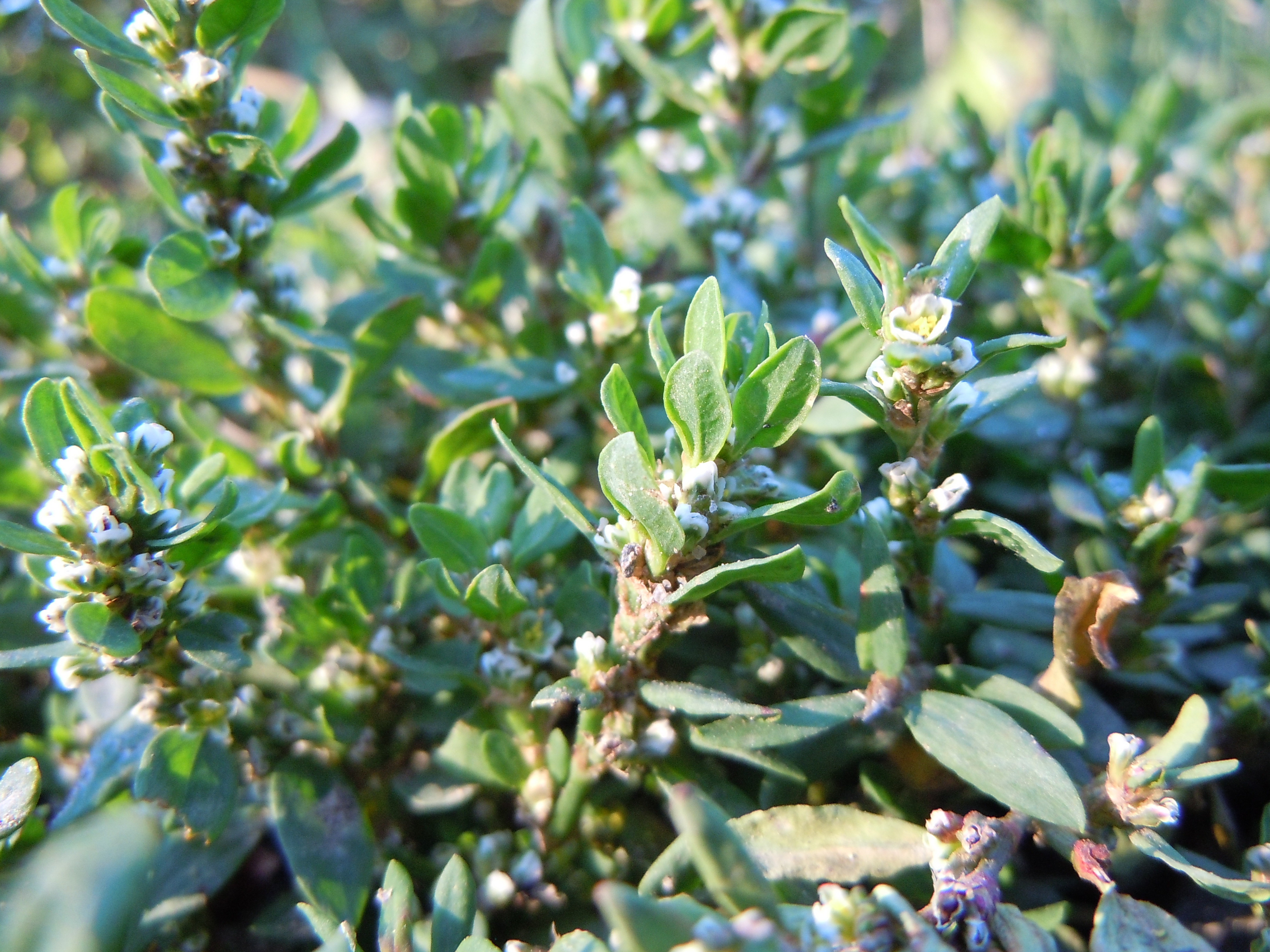 The flowers tend to be showier in Polygonum aviculare because all of the tepals are of the same size and texture and with a contrasty white pigment.